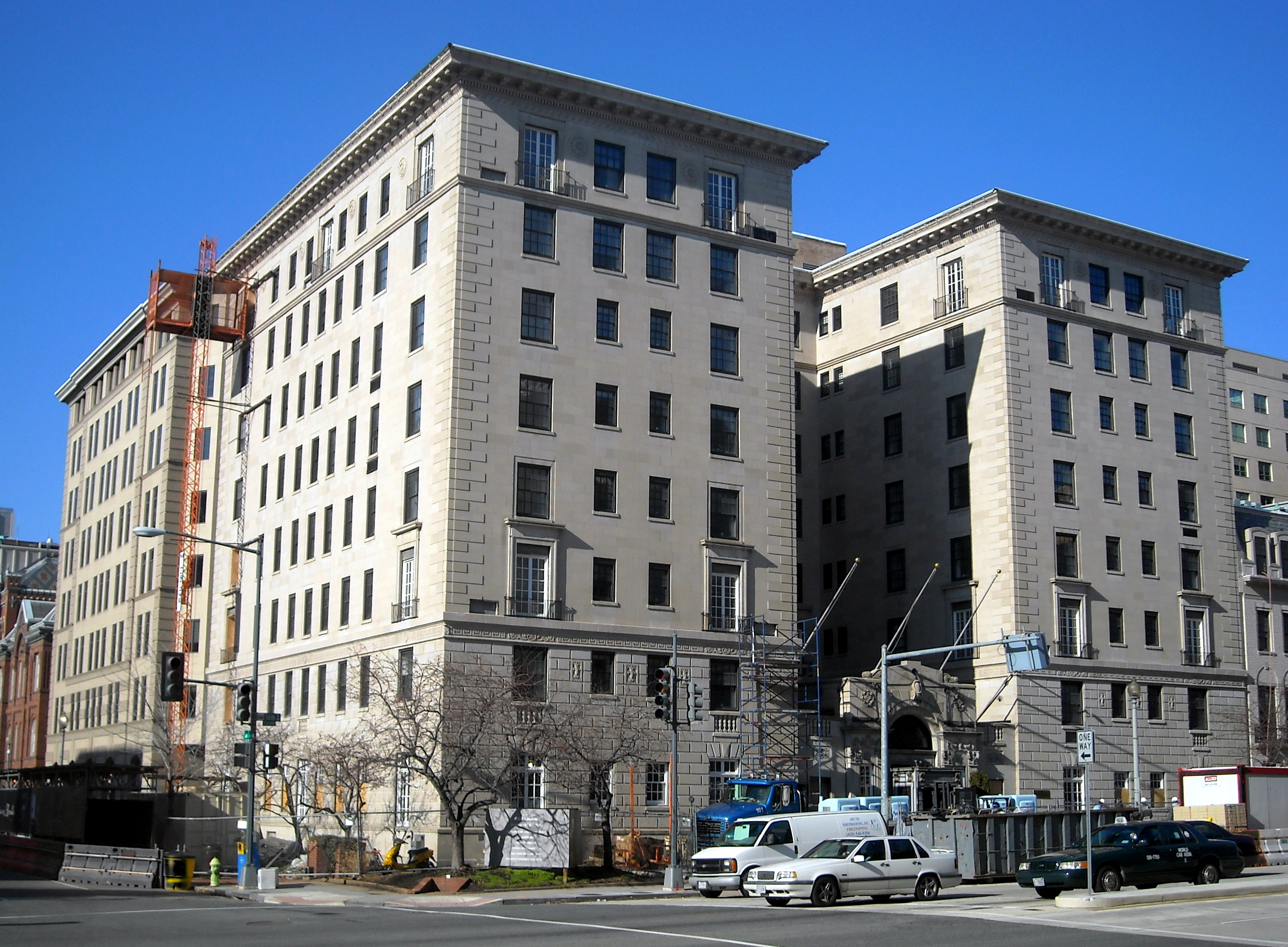 The Jefferson located at 1200 16th Street NW in Washington, D.C. It was designed by local architect Jules Henri de Sibour in 1922. Originally known as The Jefferson Apartment, the Beaux-Arts building was converted into a hotel in 1955. The building is a contributing property to the Sixteenth Street Historic District.